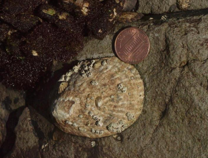 Lottia giganteaOwl Limpet (Lottia gigantea) - : It is most abundant in California and favors vertical rock faces in wave-swept areas in the upper littoral zone. It grows slowly and may live for up to 20 years. It browses on microalgae growing on rock surfaces. The owl limpet is a territorial species and some individuals return to the same specific location every time the tide goes out. The limpet's contours grow to fit the rock surface tightly. Large female limpets graze on the film of algae growing on rocks and defend their territory against other owl limpets, mobile gastropods, mussels, sea anemones, barnacles and macroalgae. They dislodge large competitors by pushing them away with the anterior part of the shell, and if barnacles settle, they are rasped away with the radula.